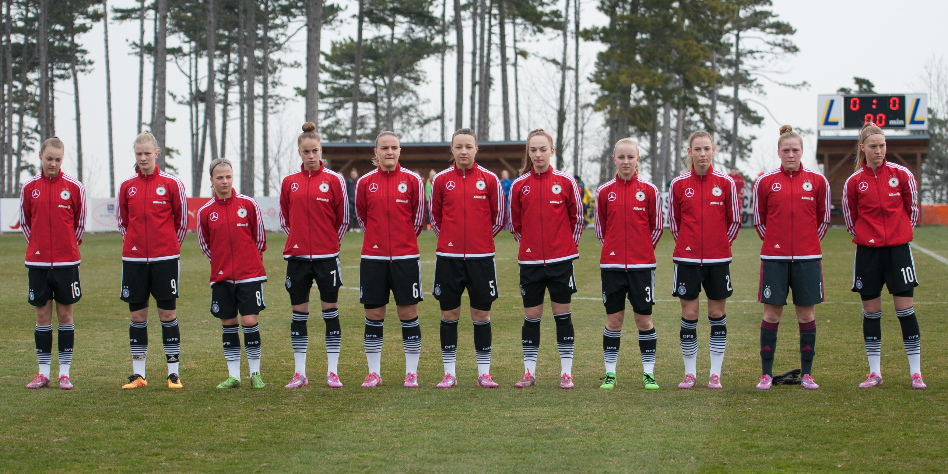 UEFA European Women's U17 Championship elite round Germany vs. Switzerland, 2016-03-19